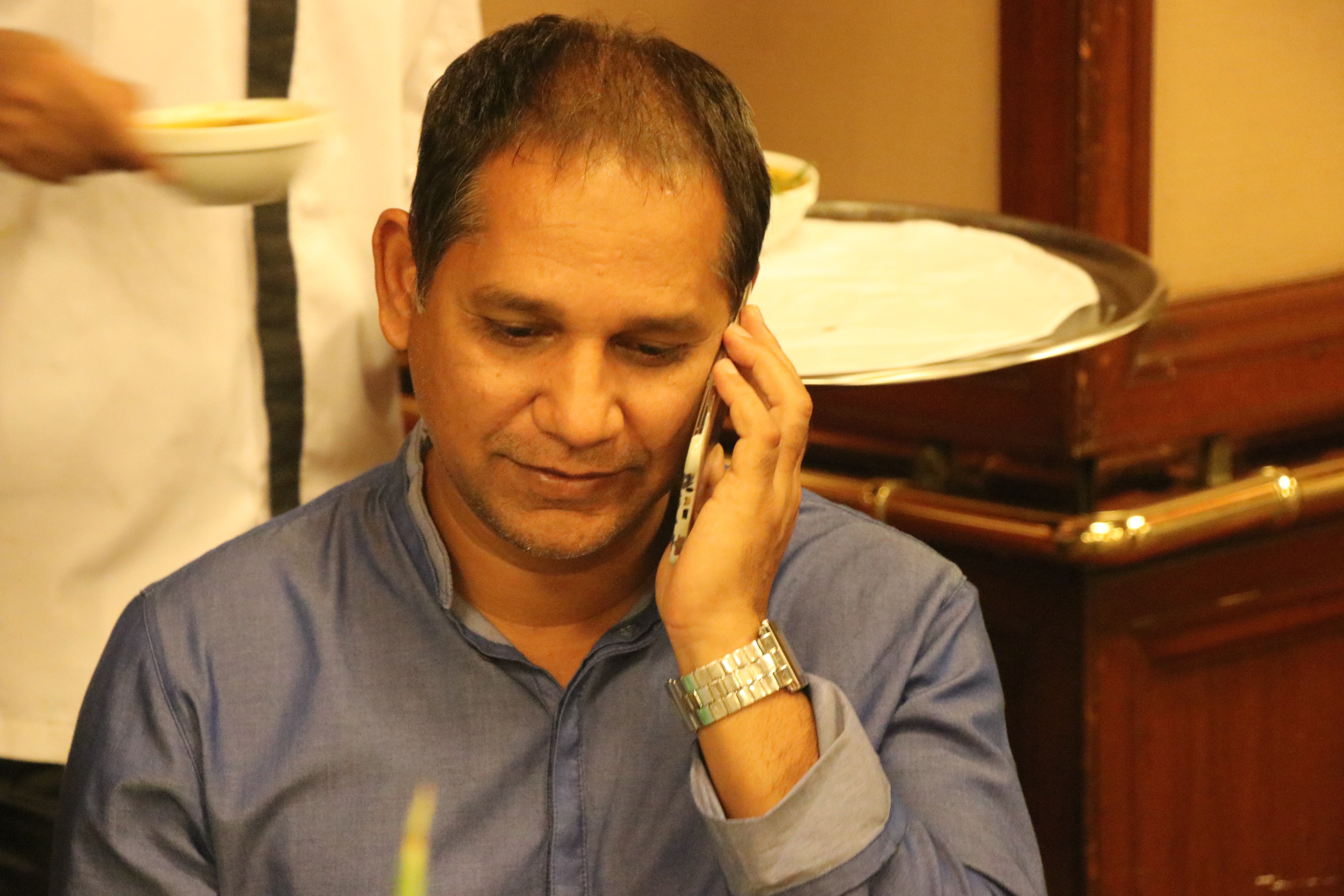 Habibul Bashar Sumon, The former captain of Bangladesh National Cricket team